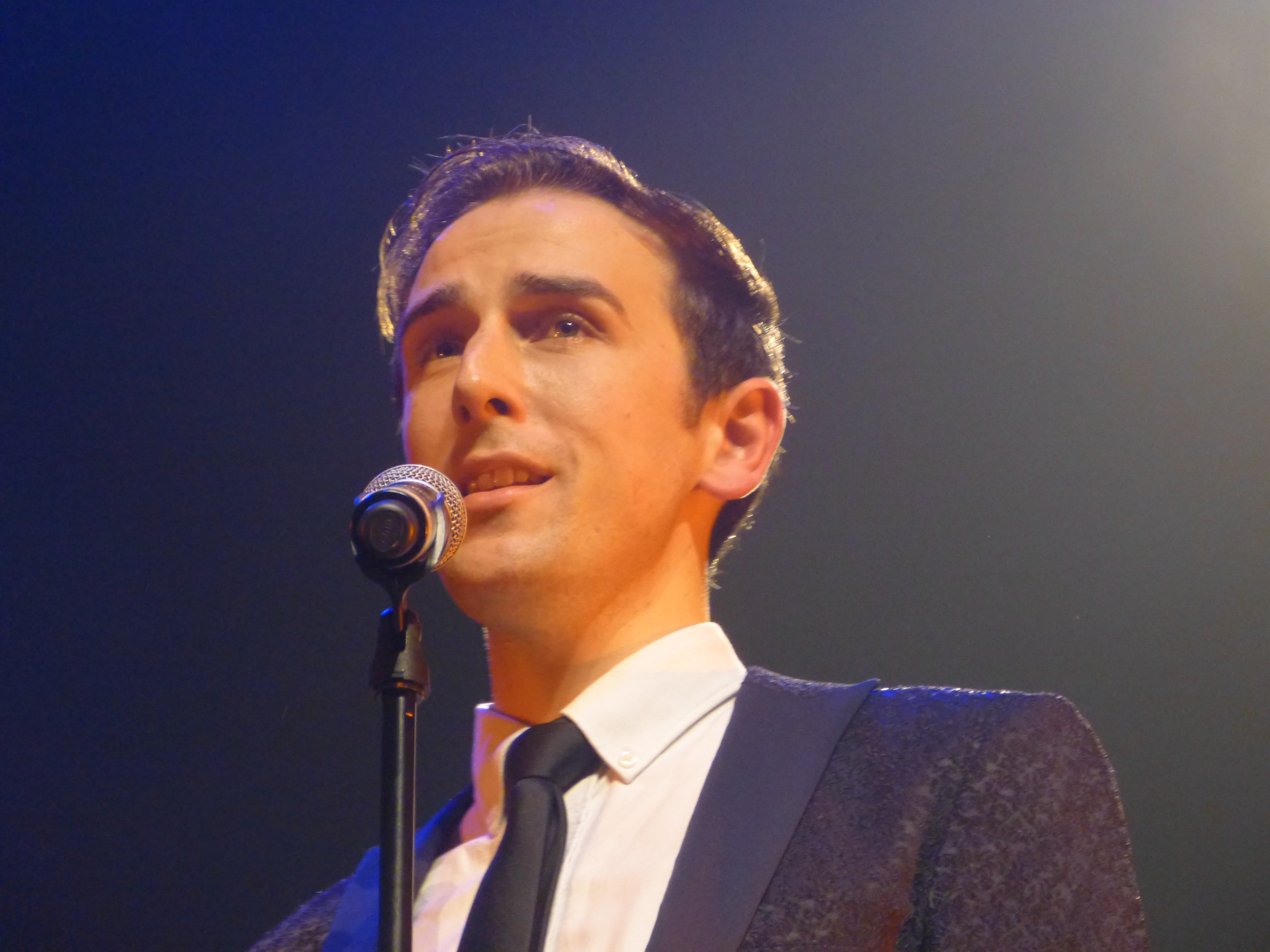 Photo of Nick Ashby